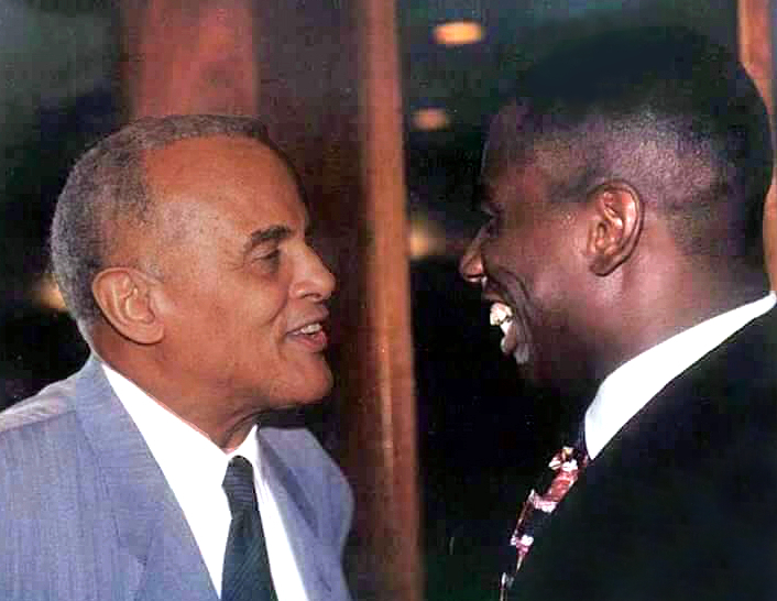 Opera star Stacey Robinson (right) meets with the actor, singer and civil rights activist Harry Belafonte at the Crossroads Theater in 1988. The occasion was Theaterworks USA's production of Ossie Davis' "Paul Robeson, All American". Robinson played the lead character. (Exact date is approximate.) Photographer Mary Biggs; modifications (cropping, tone) by Tom Sulcer.